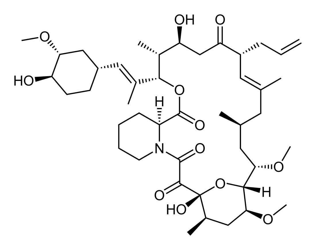 Skeletal formula of the tacrolimus molecule, based on PDB structure 1BKF and information from DrugBank.